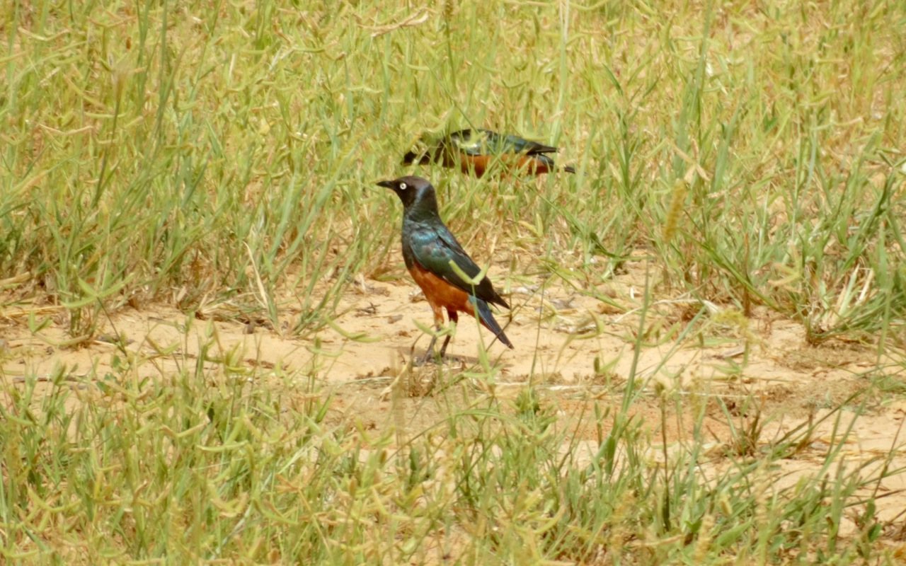 Chestnut-bellied starling (Lamprotornis pulcher) photographed near Belbedji, Zinder Region, Niger